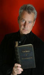 A Picture of Author Roderick Gordon, reading The Book of Catastrophes as mentioned in the Tunnels series of children's books